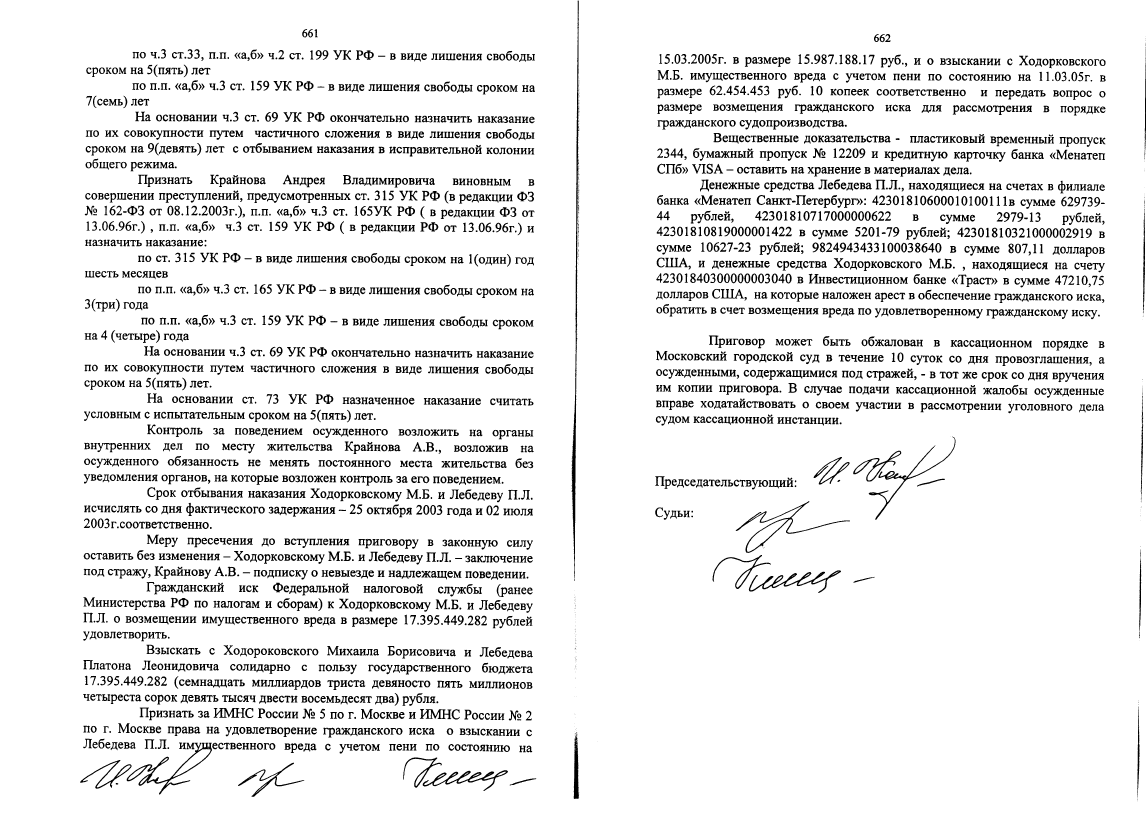 The last page of the sentence to Khodorkovsky and colleagues. The decision of Meschansky court, May 16, 2005.